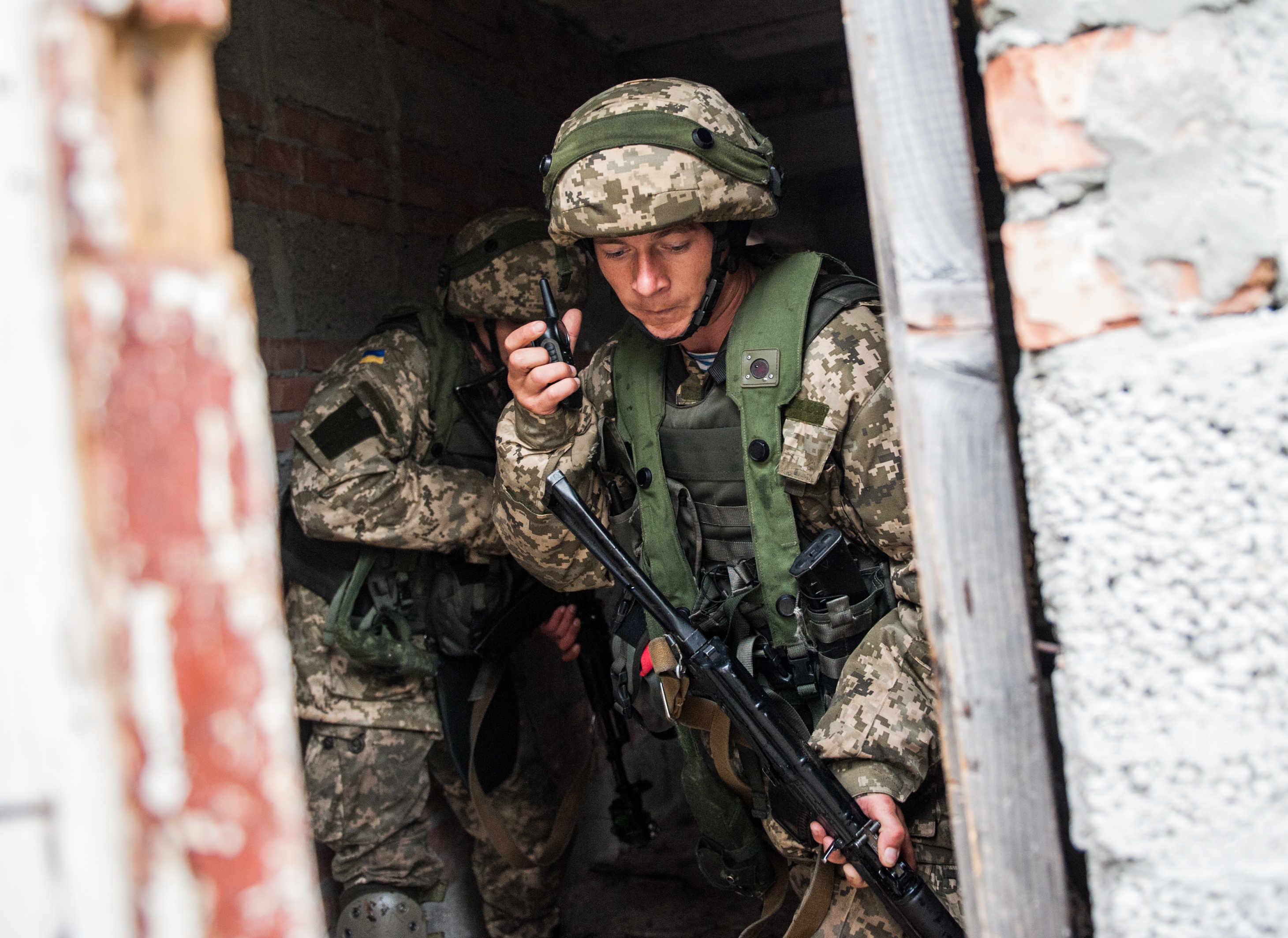 A Ukrainian marine radios back to base during exercise Rapid Trident 2014 in Yavoriv, Ukraine, Sept. 23, 2014. Rapid Trident is an annual joint combined exercise involving the U.S. and Partnership for Peace member nations. Missions alternate in odd and even years. In odd years Rapid Trident is a field exercise, while in even years the exercise incorporates a command post exercise.